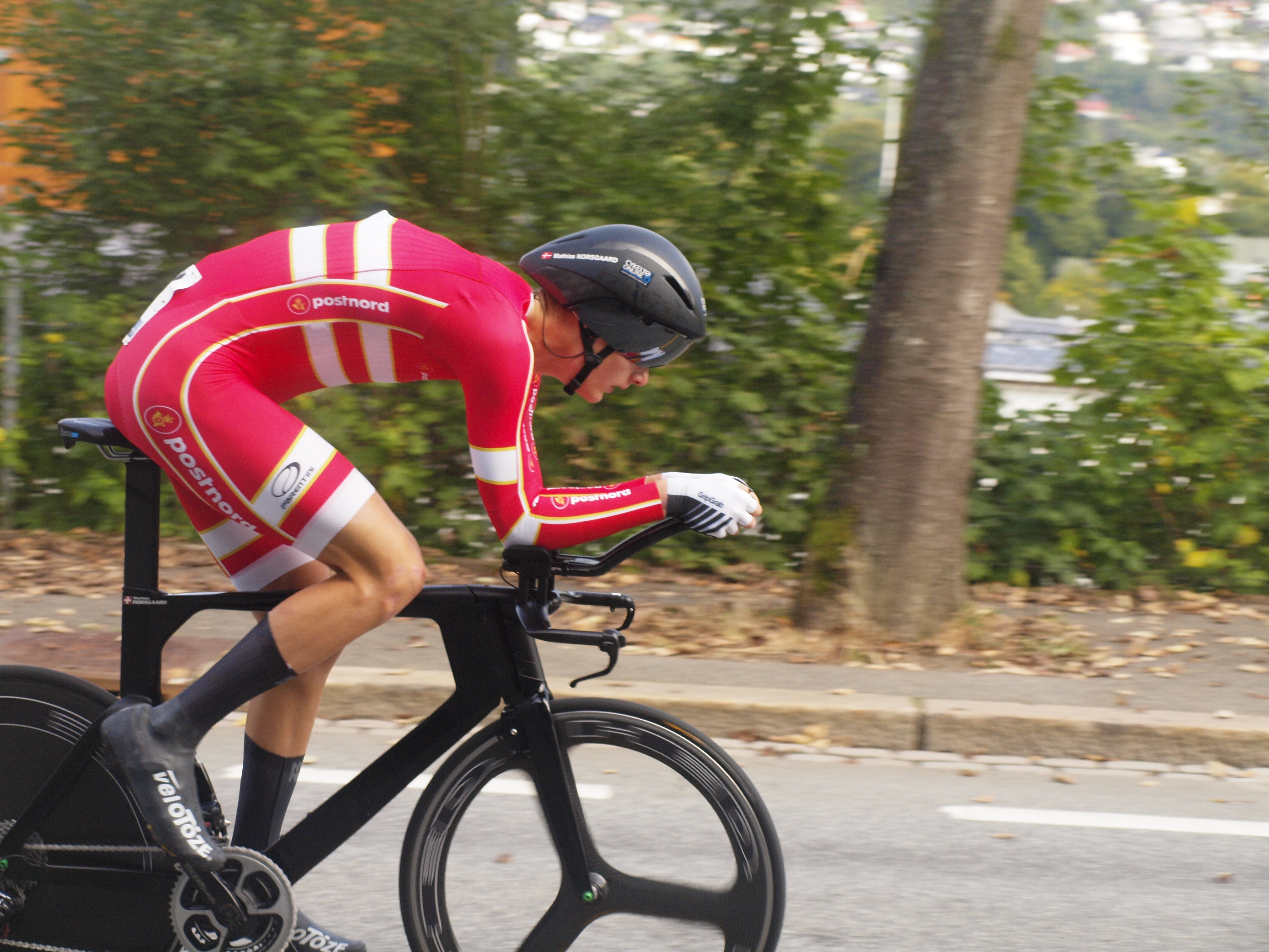 Mathias Nørsgaard Jørgensen at the 2017 UCI World Championships